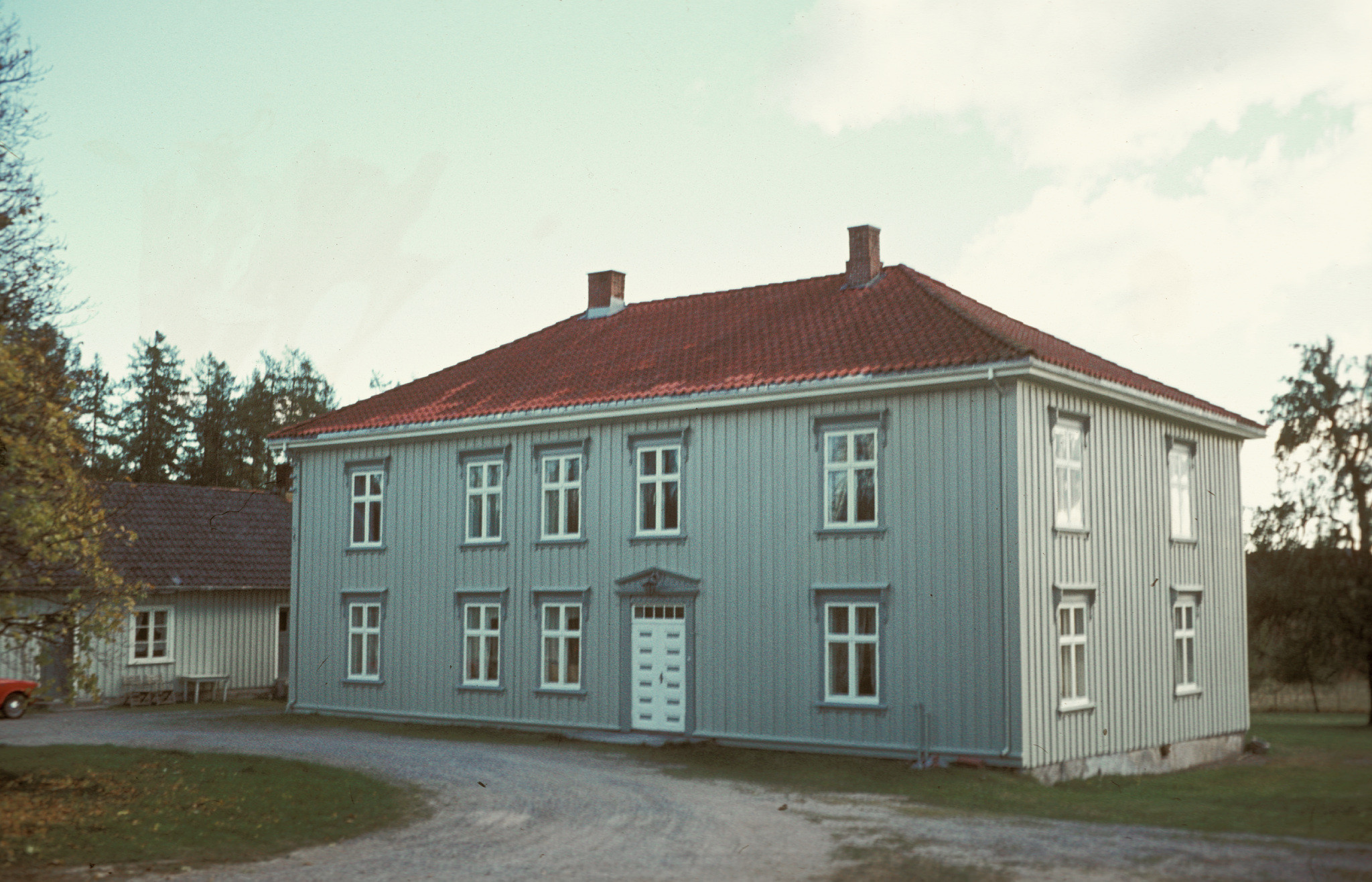 Hovedbygningen ved Solum prestegård